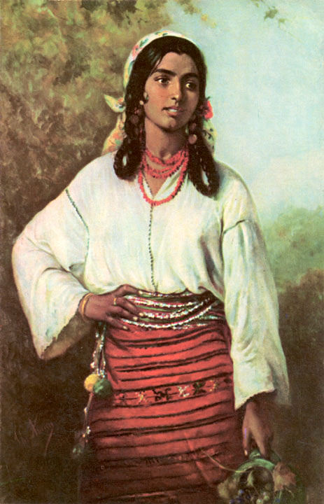 Gipsy Girl, by Theodor Aman (Romanian 1831-1891), date 1884, National Gallery Bucharest